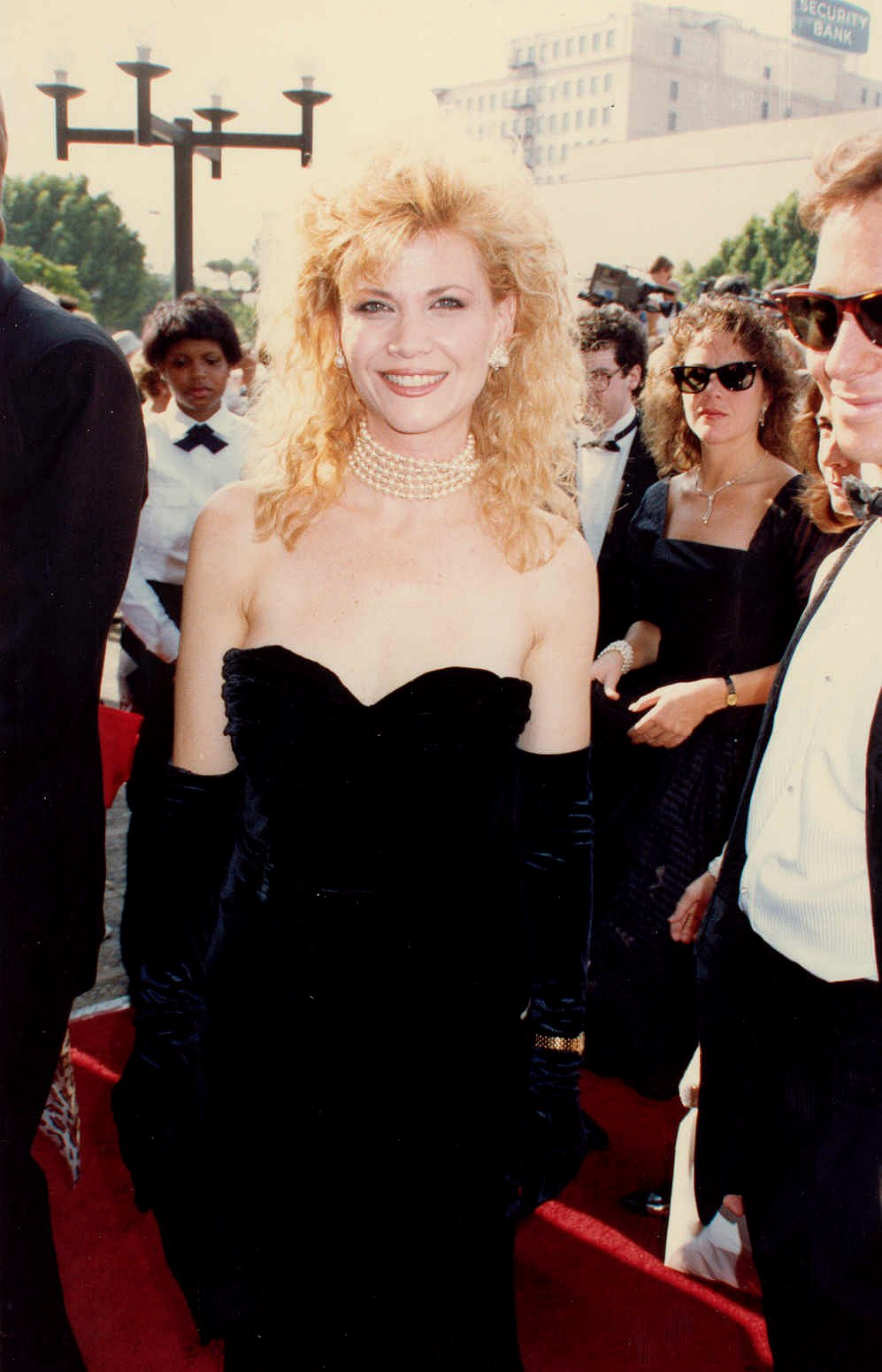 Markie Post on the red carpet at the 40th Annual Primetime Emmy Awards, 8/28/88 - Permission granted to copy, publish, broadcast or post but please credit "photo by Alan Light" if you can